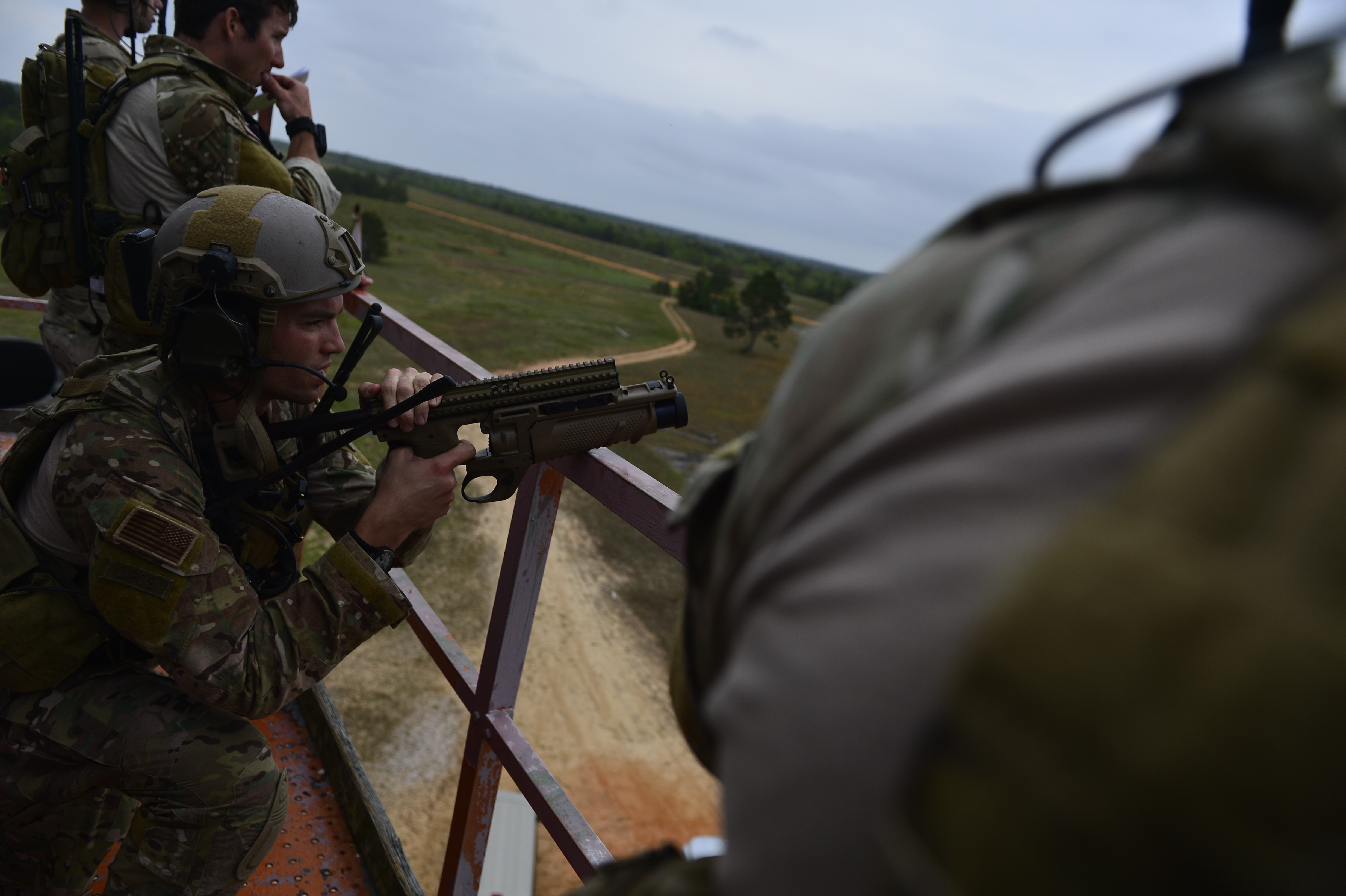 U.S. Air Force joint terminal attack controllers fire signals at specific attack points prior to calling in close air support at Hurlburt Field, Fla., April 24, 2013, during exercise Emerald Warrior 2013. Emerald Warrior is an annual two-week joint/combined tactical exercise sponsored by U.S. Special Operations Command designed to leverage lessons learned from operations Iraqi and Enduring Freedom to provide trained and ready forces to combatant commanders.